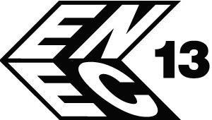 Swiss conformity mark ENEC.